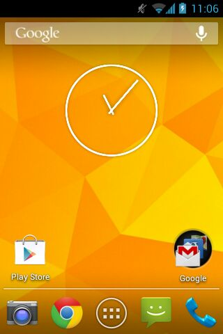 Android 4.2 screen image